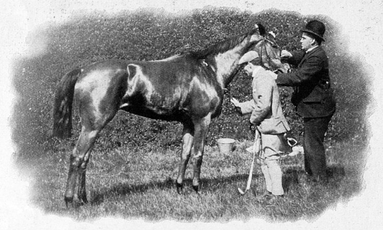 Sibola, winner of the 1000 Guineas, being cleaned before running in the 1899 Epsom Oaks.